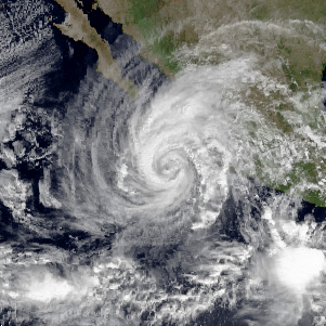 Hurricane Rosa on October 13, 1994